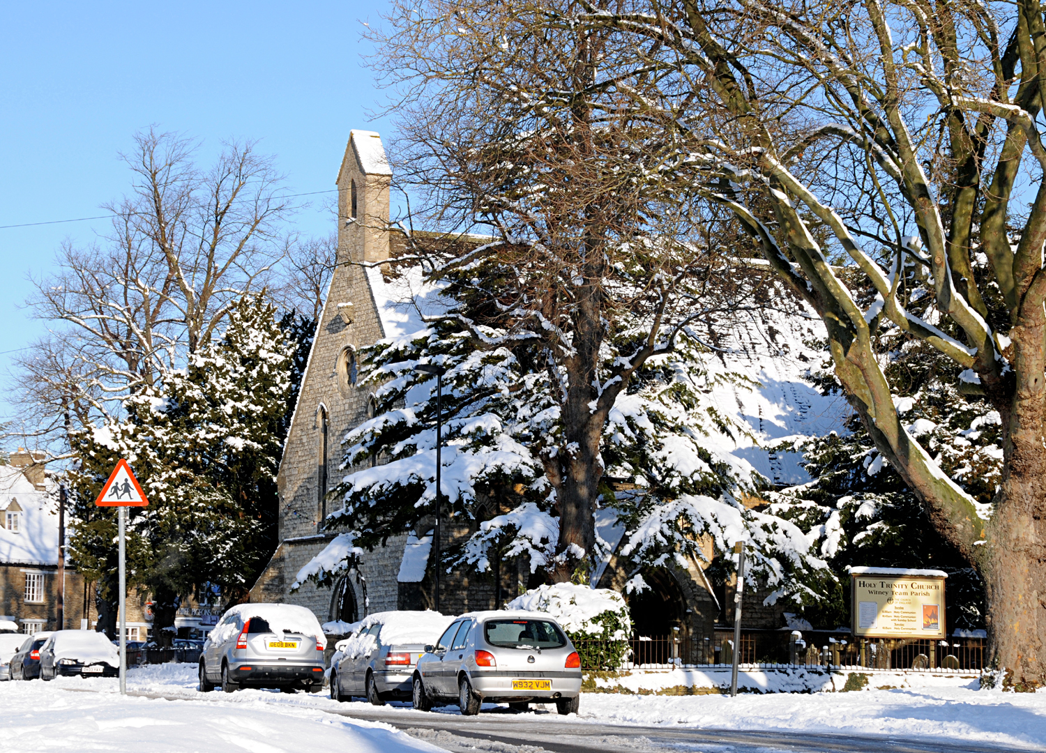 Holy Trinity parish church, Woodgreen, Witney, Oxfordshire, seen from the south in snow